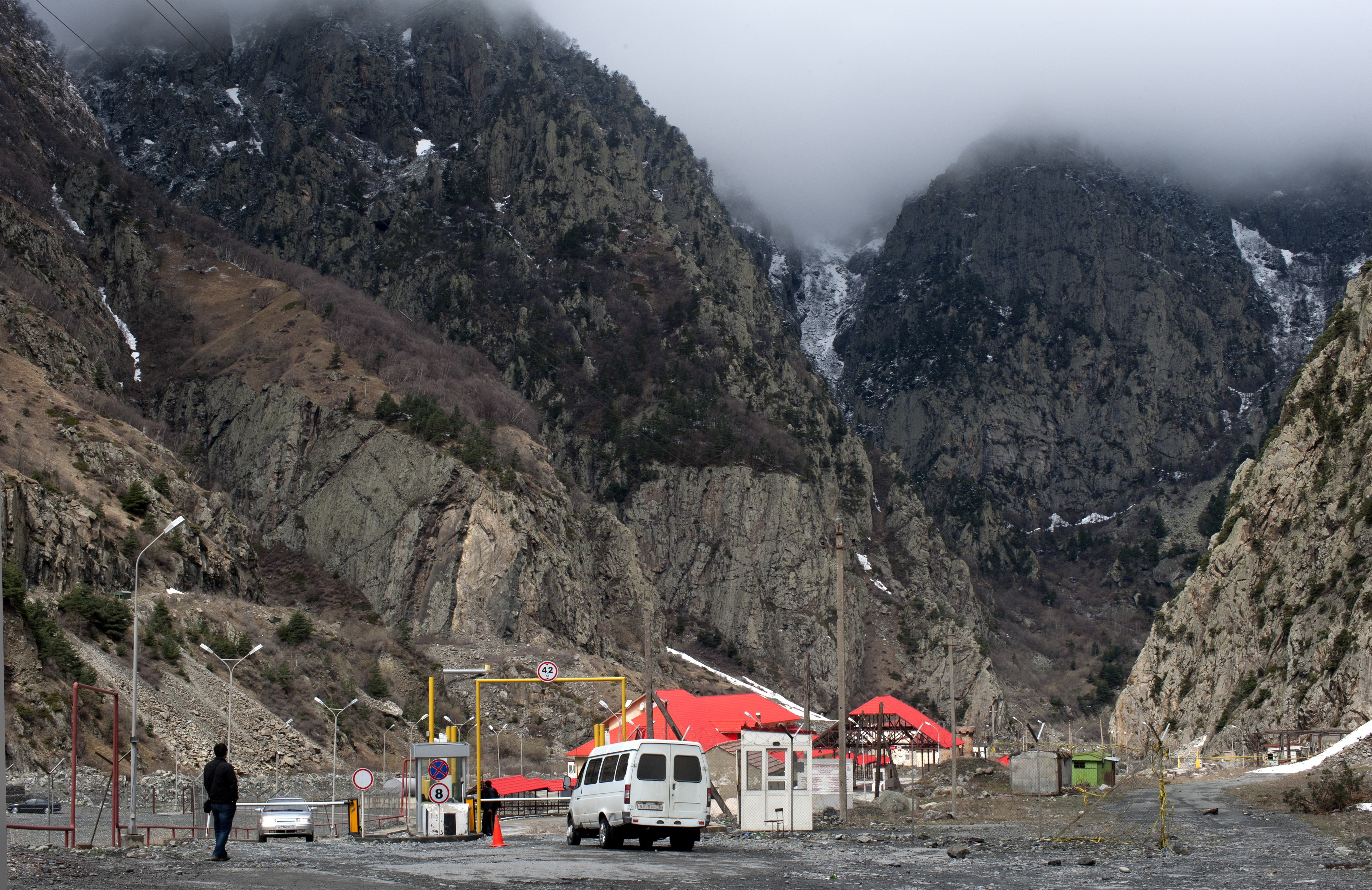 Georgian-Russian border point Dariali in the Darial Gorge, north of Stepantsminda (Georgian side).